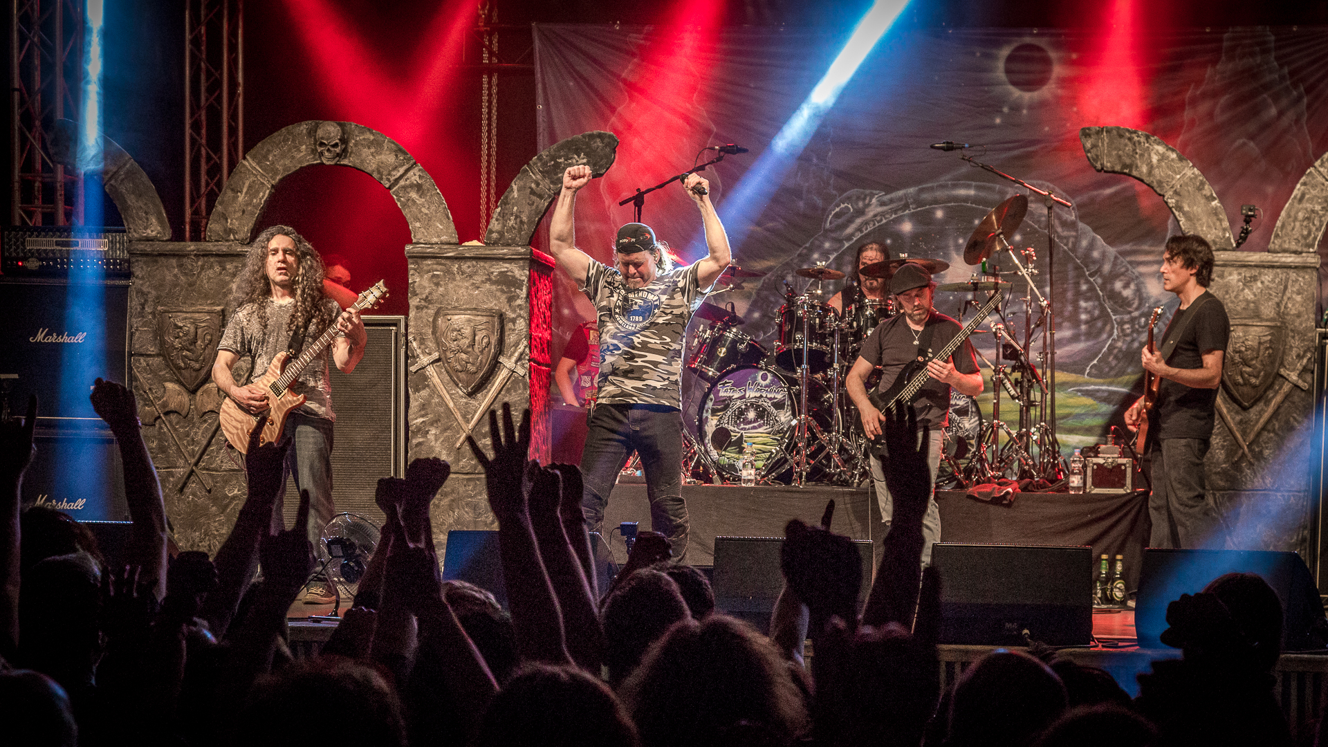 Fates Warning during the Keep It True Festival (Awaken The Guardian album 30th Anniversary Show) in Lauda-Königshofen, Germany (2016.04.30)